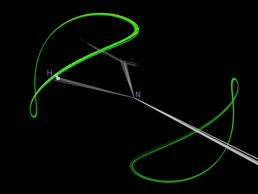 RDC target curves shown on the 1D3Z ubiquitin NMR models, co-centered on the backbone N atom of Asp 58. RDC curves and display by RDCvis and KiNG (Vincent Chen).